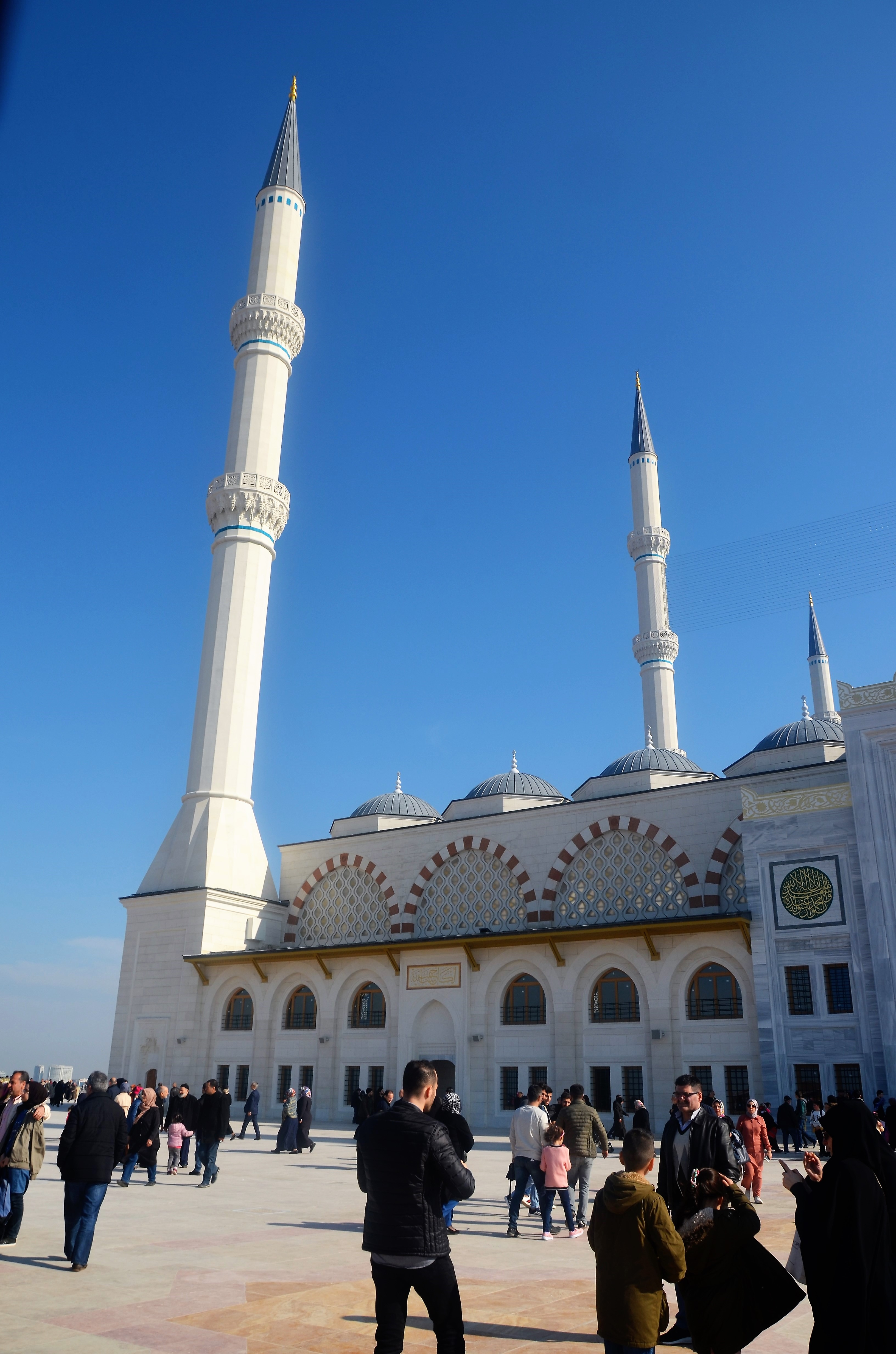 Çamlıca Mosque at Çamlıca Hill in Üsküdar Dstrict of Istanbul, Turkey.